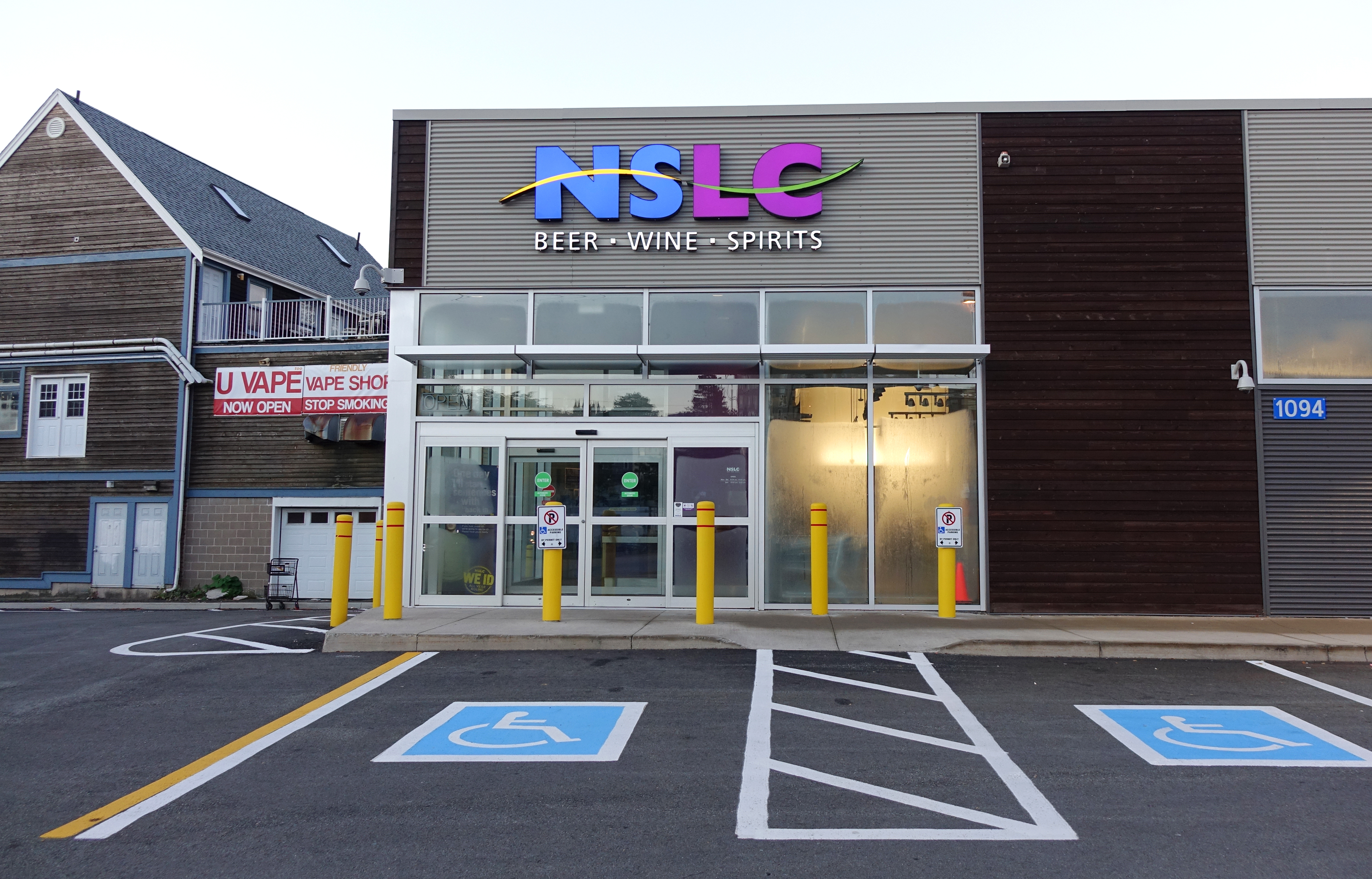 The exterior of a typical Nova Scotia Liquor Corporation (NSLC) store selling only alcohol (before cannabis legalization in Canada) in the South End of Halifax, Nova Scotia, on the morning of 15 September 2018.